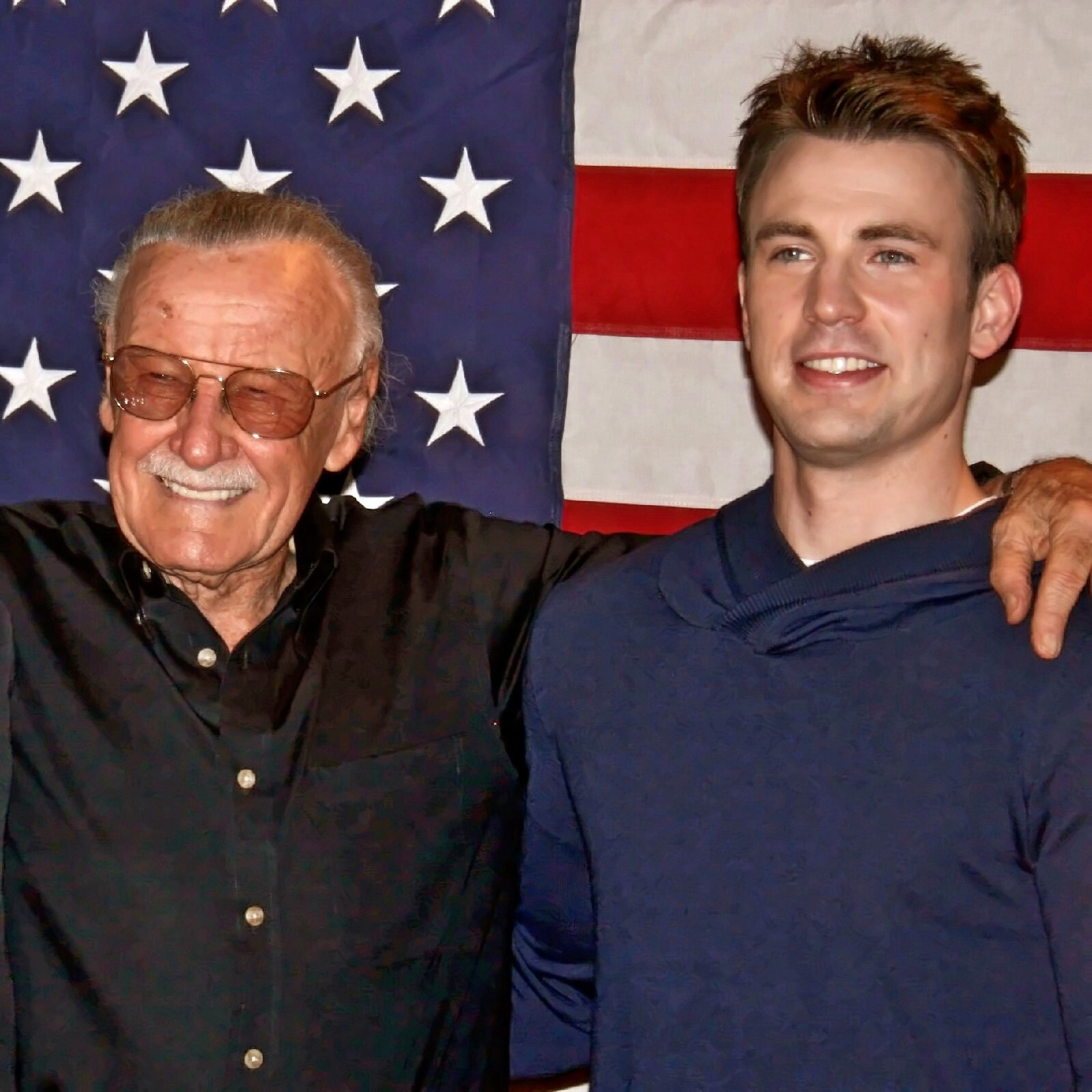 Stan Lee and Chris Evans at the 2011 Comic-Con International in San Diego, California, U.S.